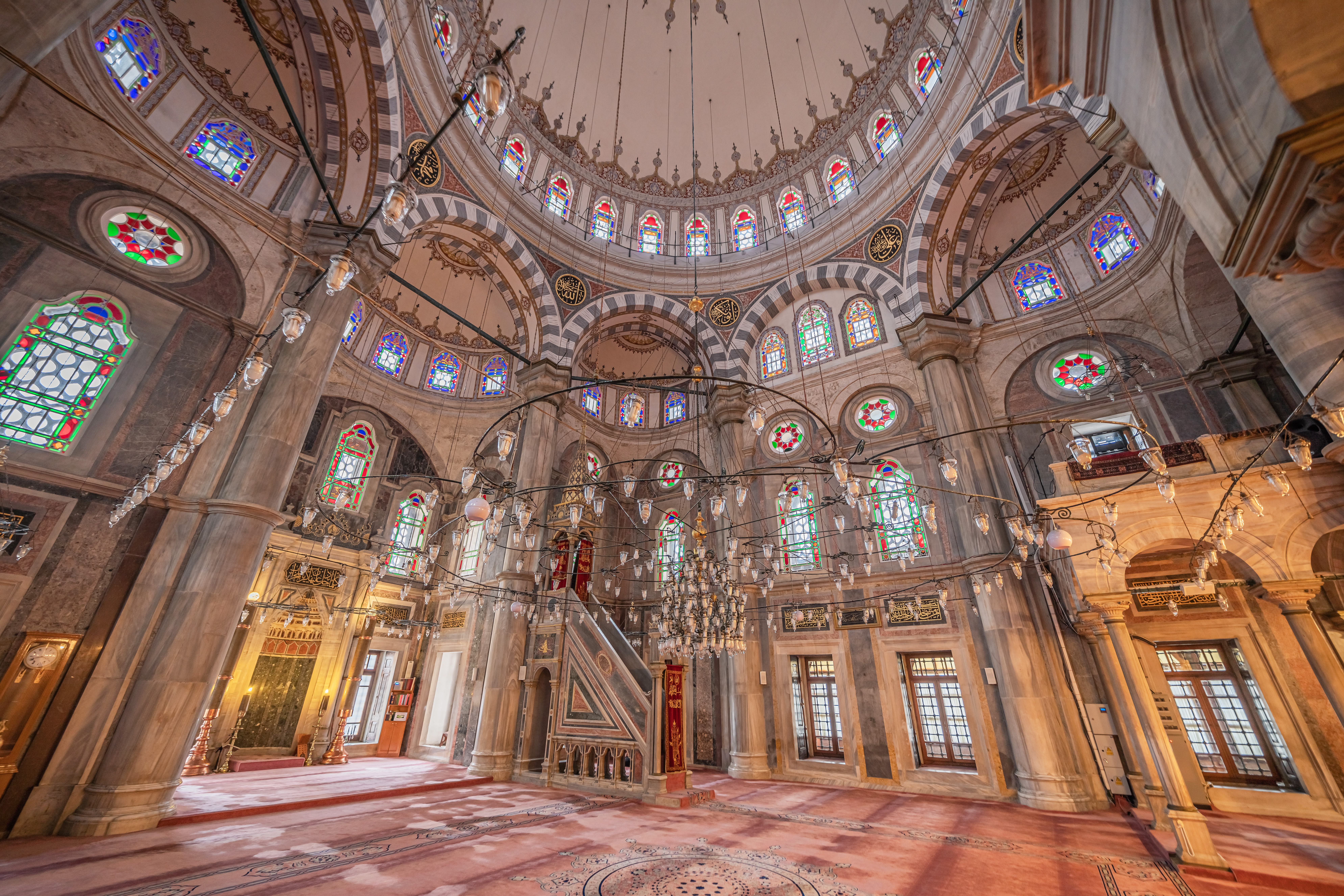 Interior of Laleli Mosque in Istanbul, Turkey